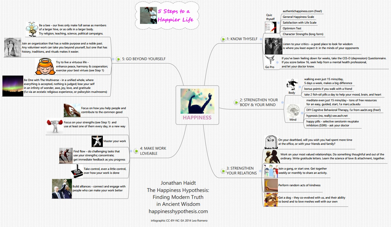 Infographic based on Haidt, Jonathan (2005). The Happiness Hypothesis: Finding Modern Truth in Ancient Wisdom. New York: Basic Books